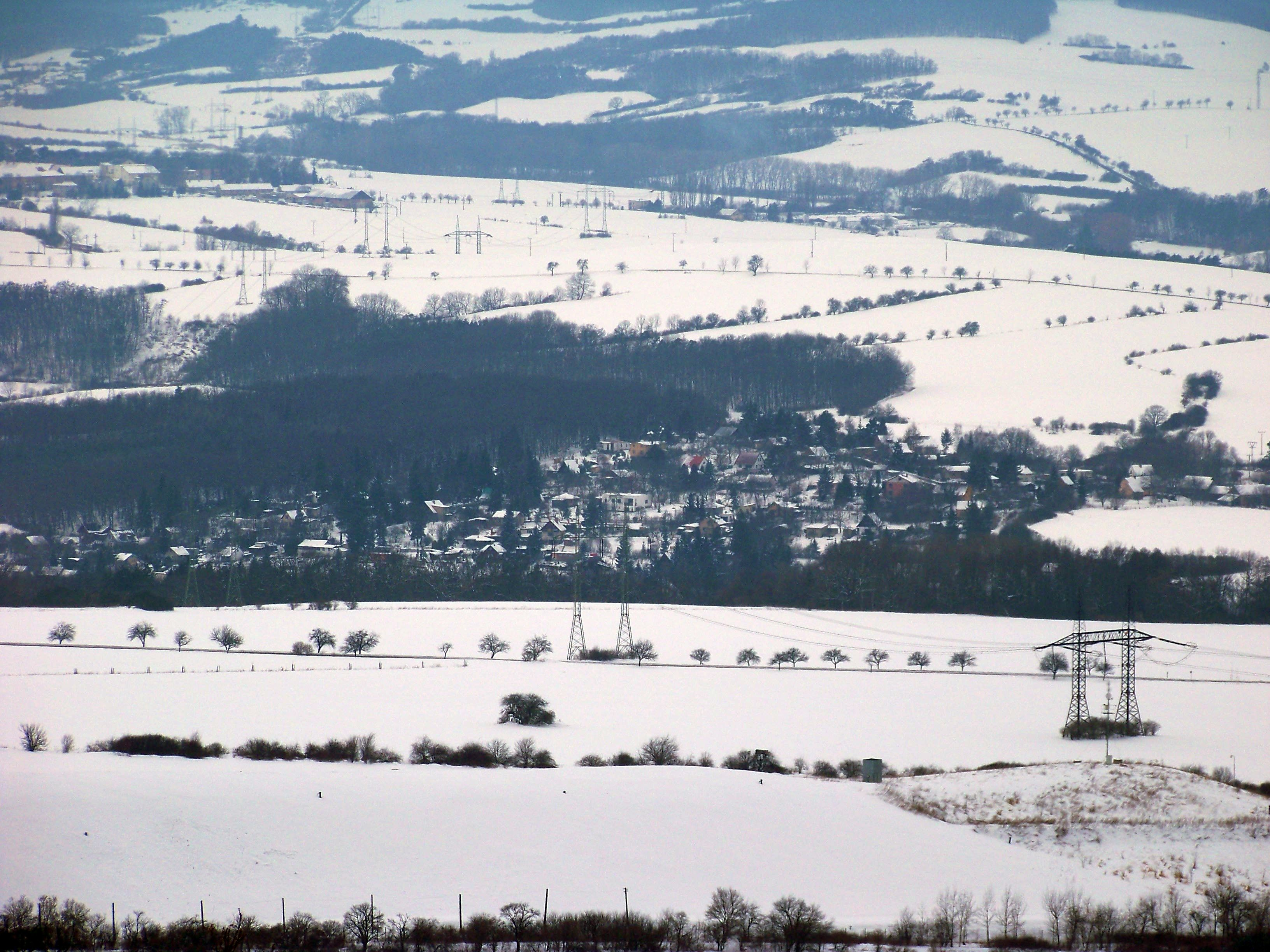 A view of Svinaře-Lhotka and surroudings (Beroun District) from Babka Hill (Řevnice, Prague-West District, Central Bohemian Region, the Czech Republic). Hradec–Řeporyje 400 kV power line (V412) in the foreground.